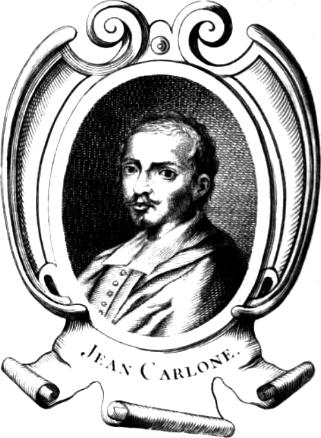 Portrait of Giovanni Carlone (1584-1631), Italian painter